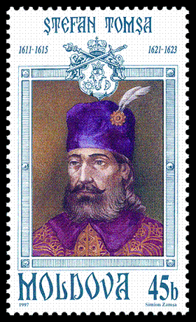 Stamp of Moldova